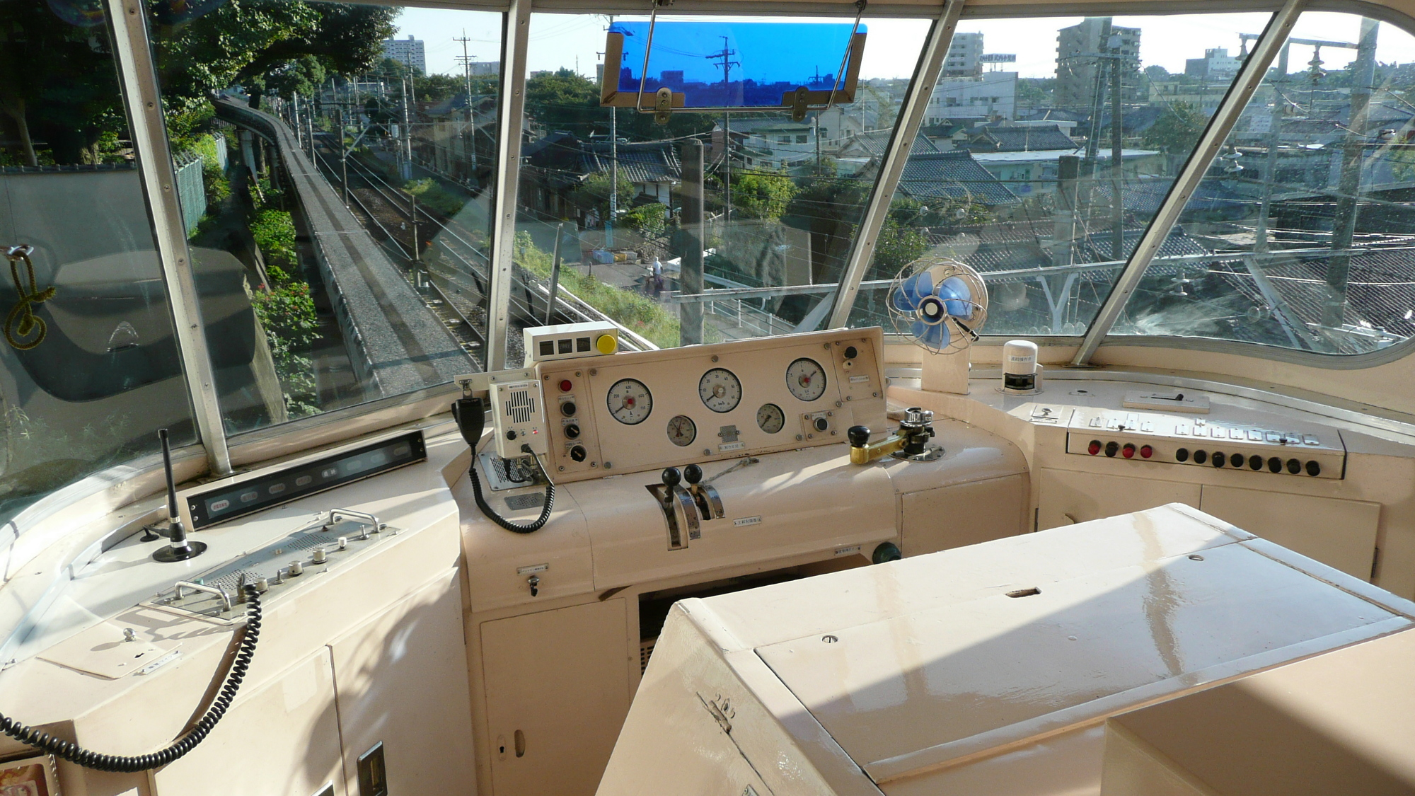 Cockpit of Nagoya Railroad Company, Type MRM100